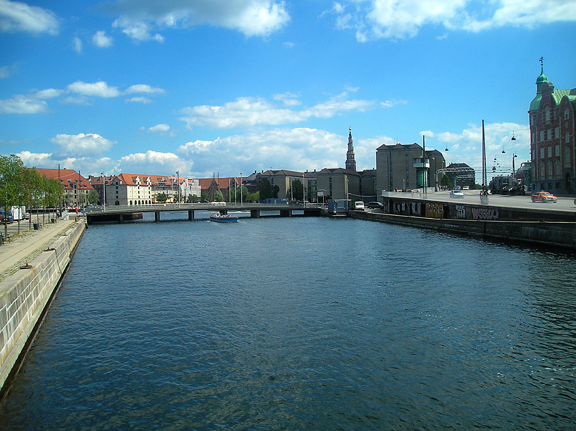 The Copenhagen channel Slotsholmskanalen seen from Børsbroen towards the bridges Christian IV's Bro and Knippelsbro. In the background Christianshavn with the church tower of Vor Frelsers Kirke (Our Savior's Church).